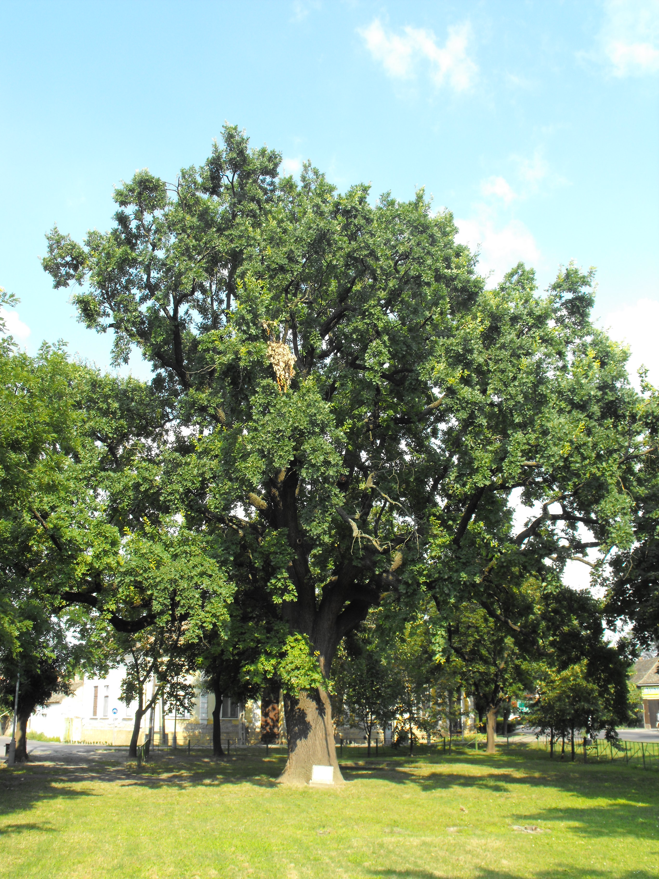 Memorial tree of Gyula Juhász, Hungarian poet in Makó, Hungary.